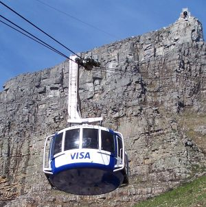 Cable car at Table mountain South Africa.